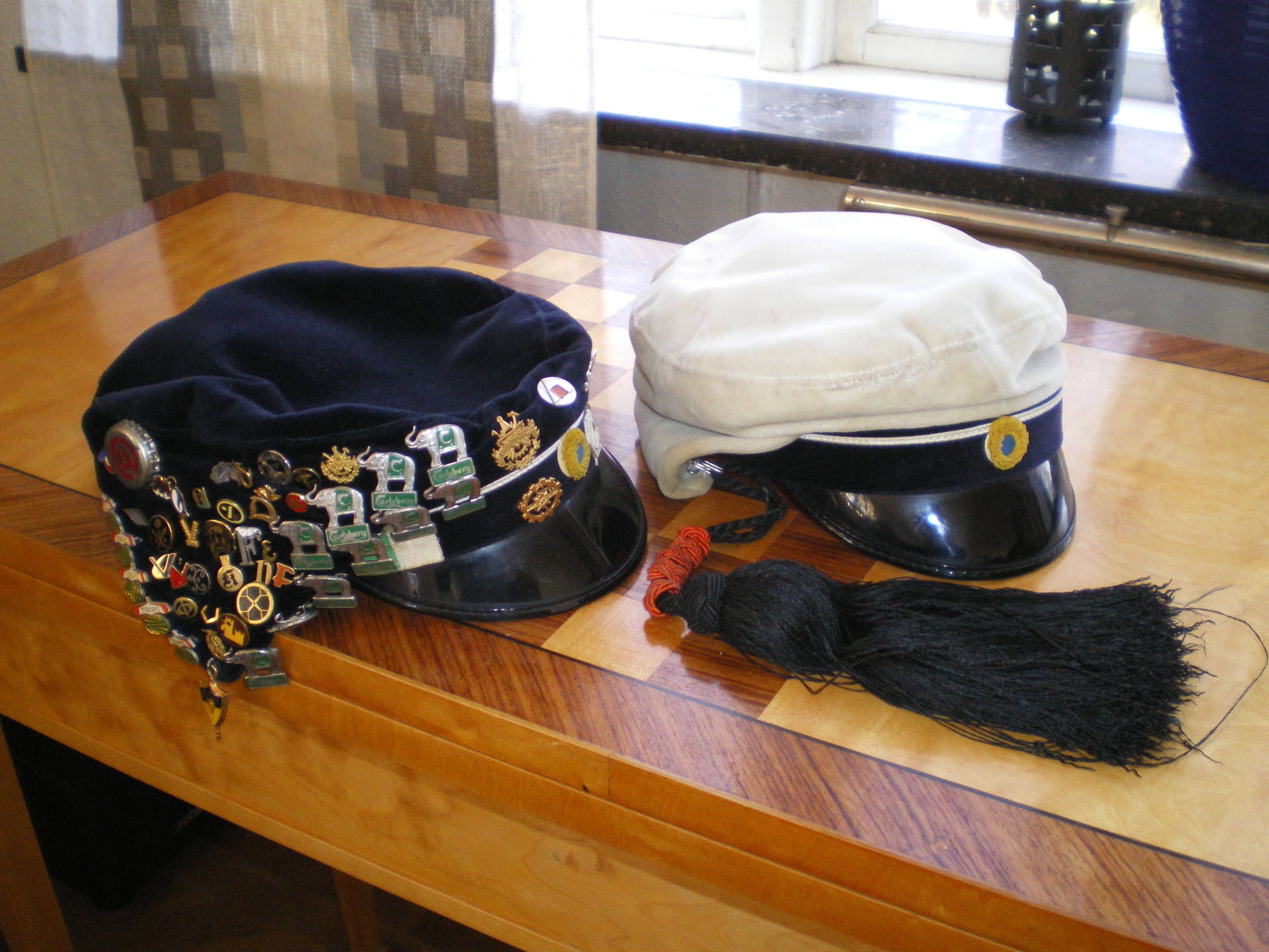 Student cap from Lund Institute of Technology